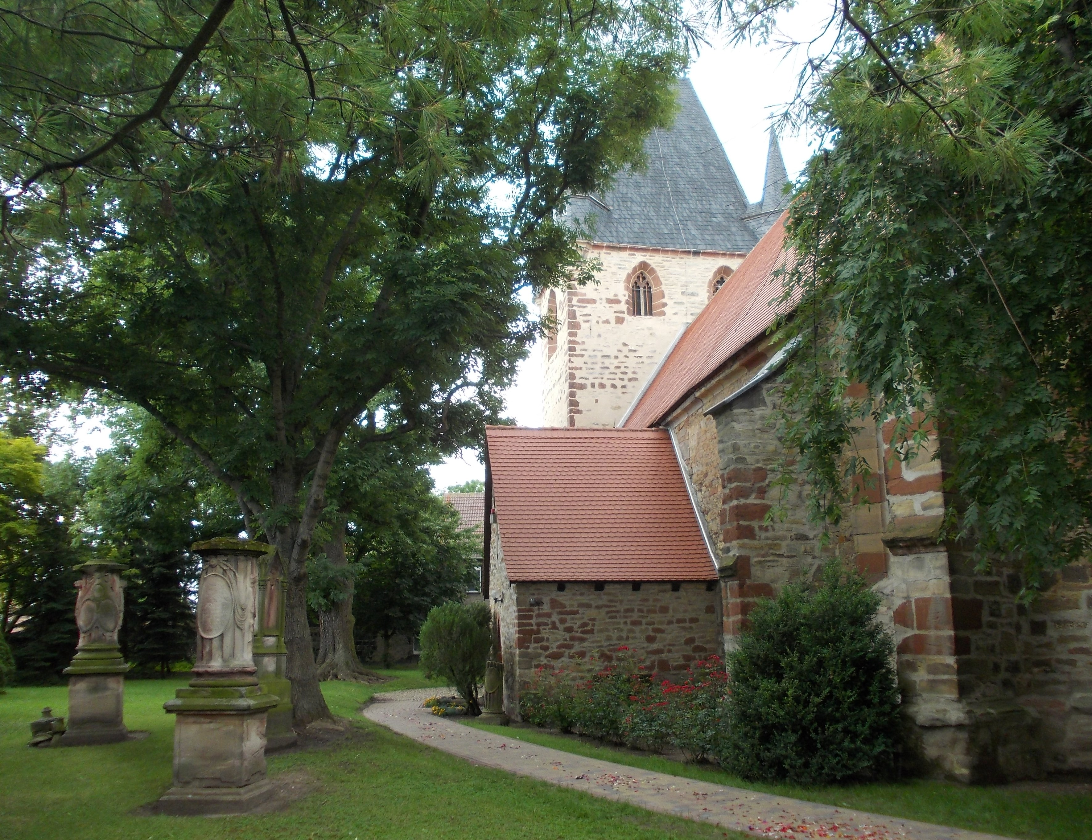 St. Wigbert's Church in Grossosterhausen (Eisleben, Mansfeld-Südharz district, Saxony-Anhalt)